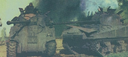 Disabled Sherman tank bypassed by another. Near Florencio Varela, Argentina, 1962.